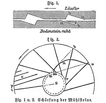 Millstone article in the Meyers Lexicon